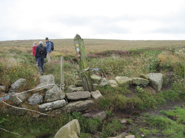 Access point for the Higher Downs The ancient field boundary has suffered under modern foot traffic, en route to Chun Quoit and Castle.